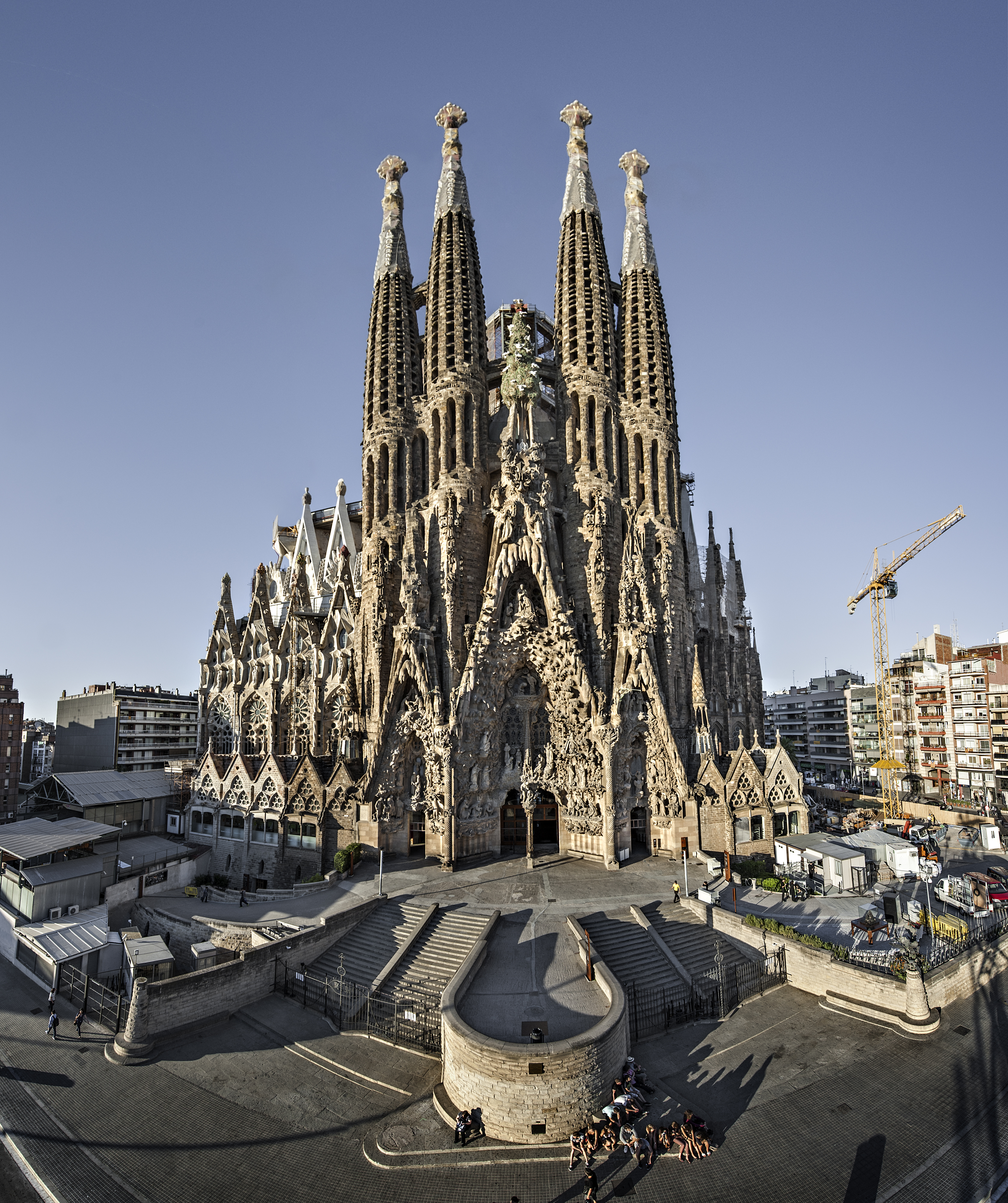 Nativity facade (Marina St.)